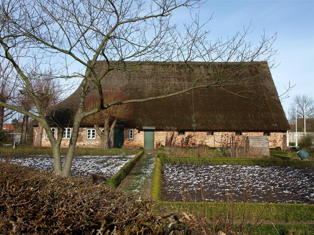 Tornesch-Esingen (Slesvic-Holstein, Germany) - farmhouse Ostermann - photo 2008. -The house, built in 1738, is the oldest building in the city of Tornesch (yard number 4, Esingen). It is a reed covered “Fachhallenhaus” (Northern-German type of farmhouse) in the form of a transit house. A cowshed was grown in 1906. The property with outbuildings and two wells was designated in 1999 as a monument of particular importance. The farm was managed until 1992. Then the buildings and fountains were restored in mostly honorary work. From autumn 1998 the main house is used as a cultural center. The farm is owned by the city and is managed by the Ernst Martin Groth Foundation.Object location53° 41′ 06.85″ N, 9° 43′ 33.91″ E